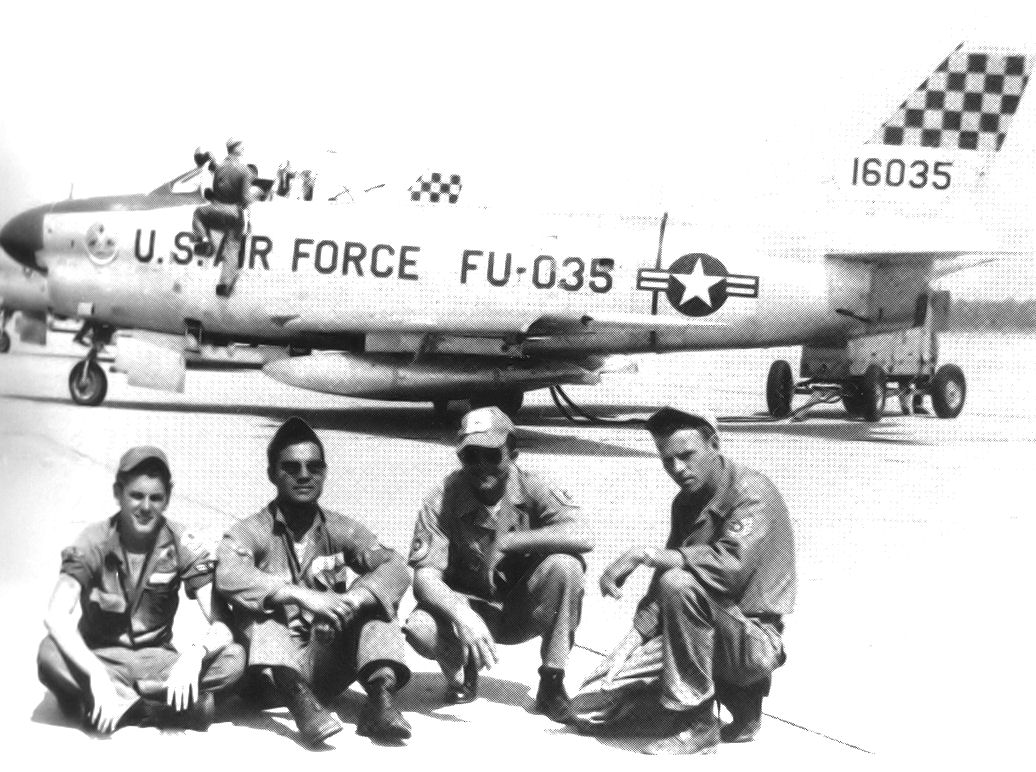 87th Fighter-Interceptor Squadron North American F-86D-30-NA Sabre 51-6035 1956 Lockbourne AFB OH